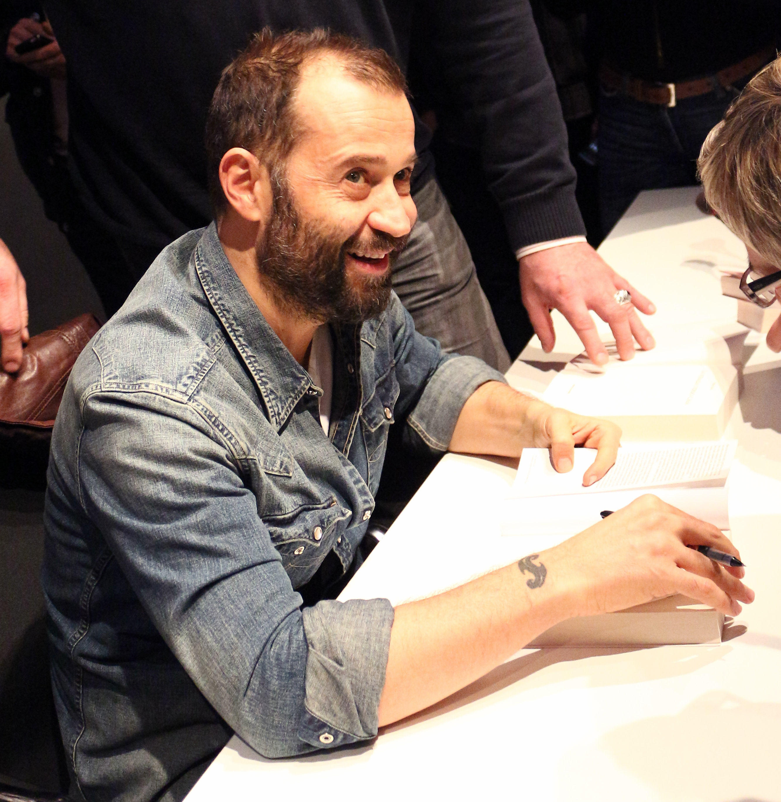 Fabio Volo in Savona